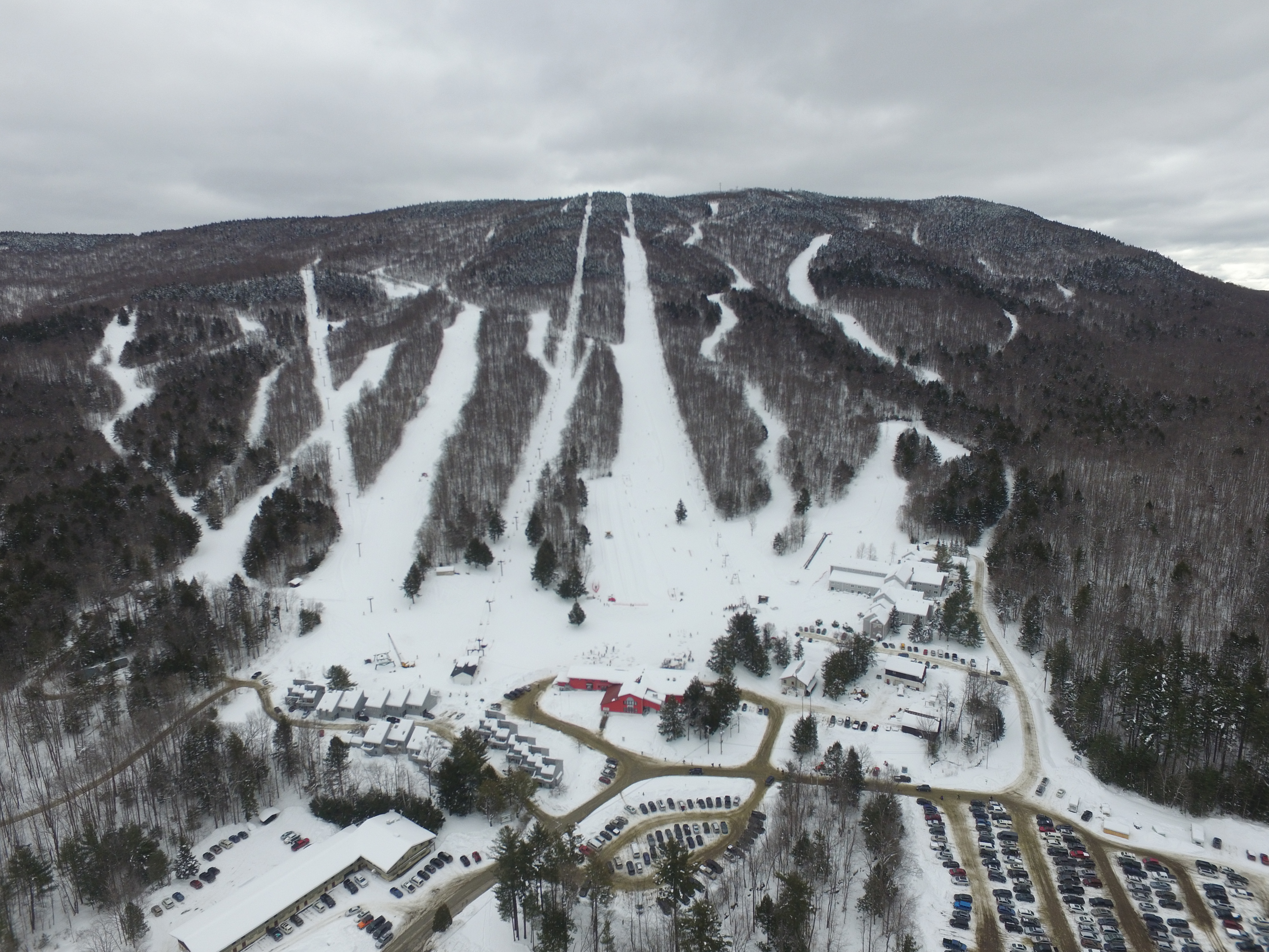 An aerial photo of Magic Mountain ski area in Londonderry, Vermont